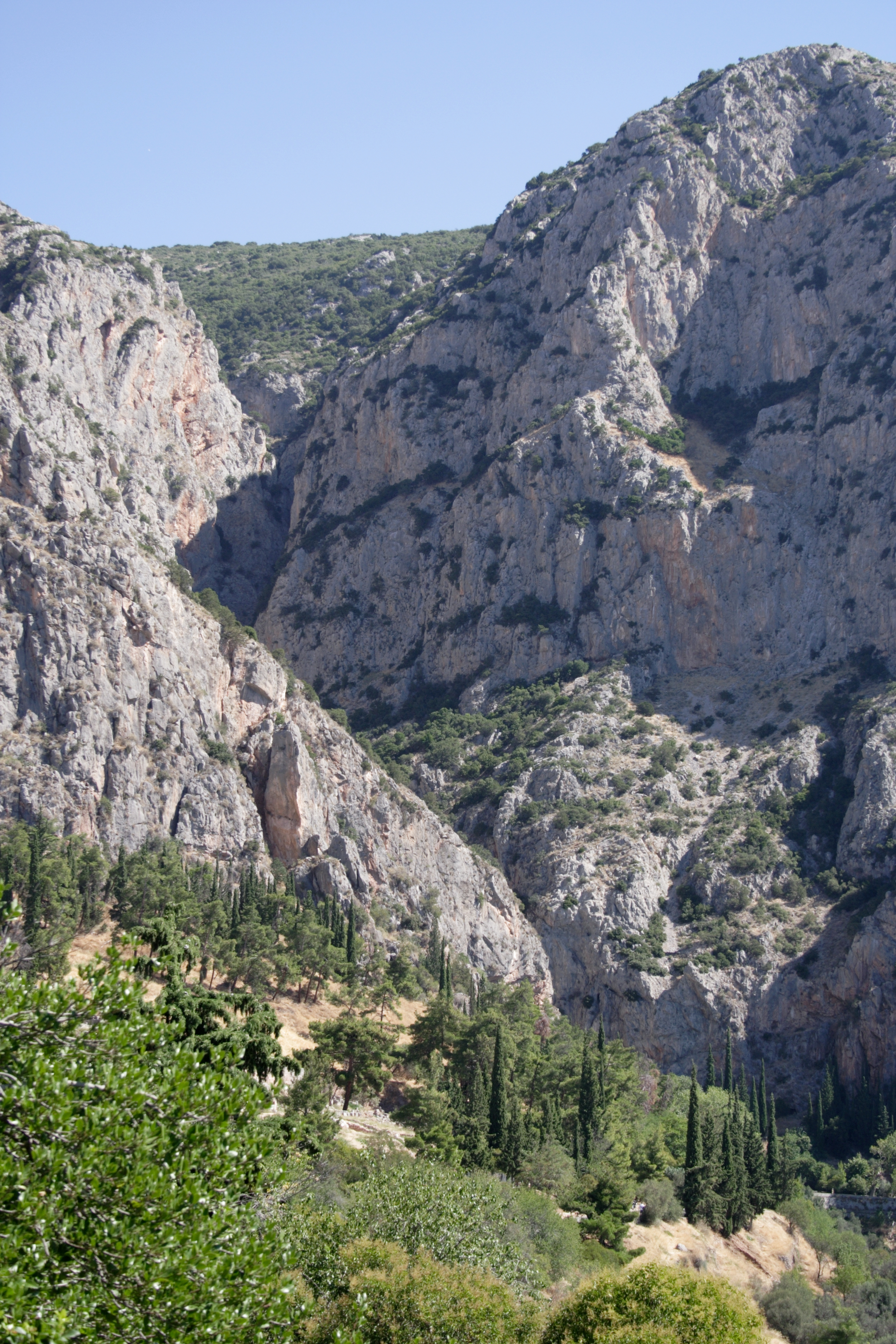 Phaedriades, Delphi.